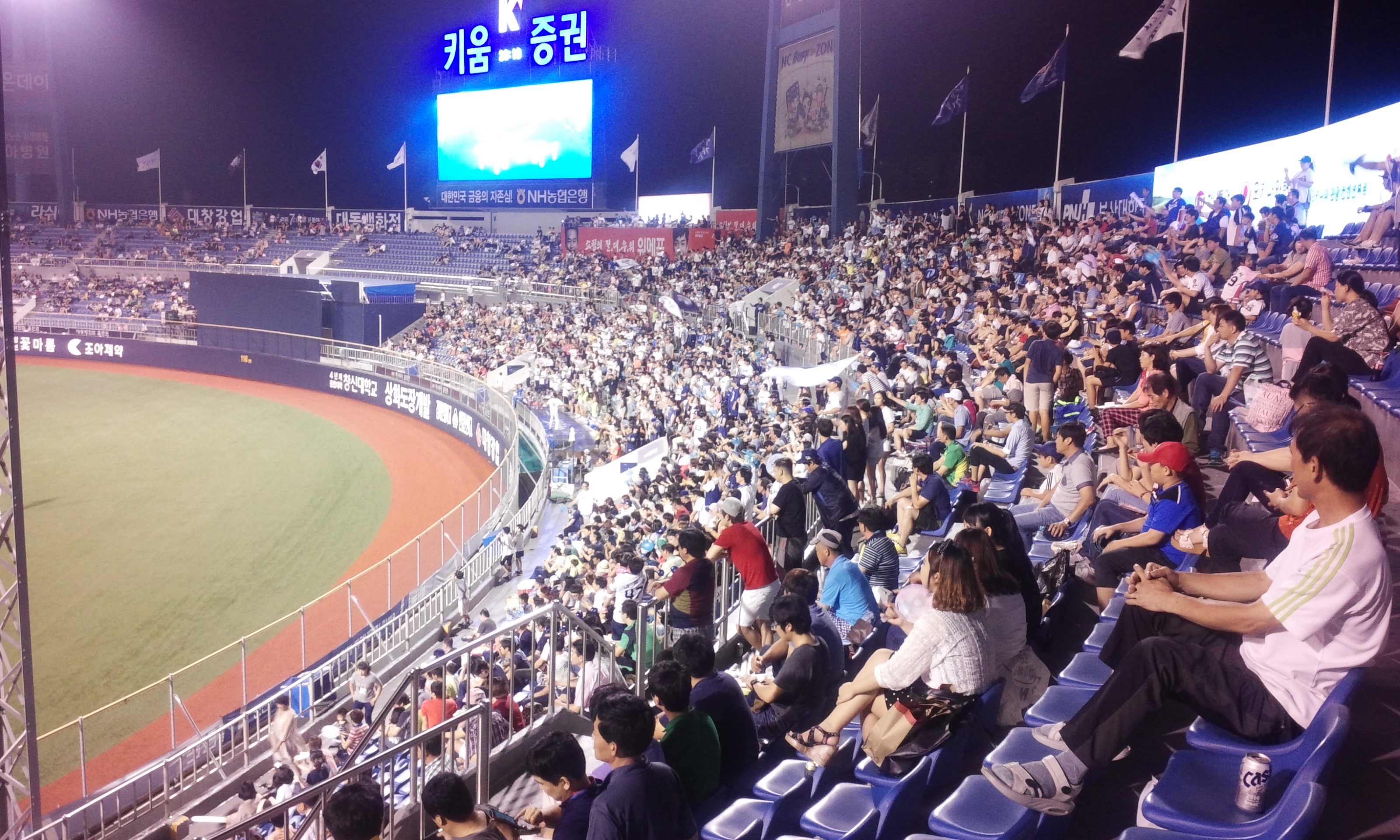 It's the outfieild seats of Masan Baseball Stadium. It was taken during the match, NC Dinos versus Nexen Heroes on August 22nd, 2014.